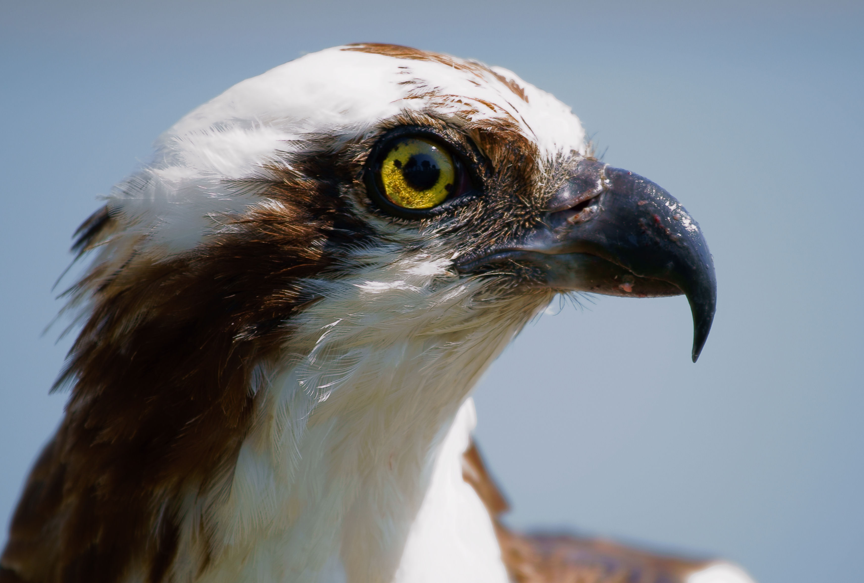 An Osprey in San Francisco Bay, California, USA.